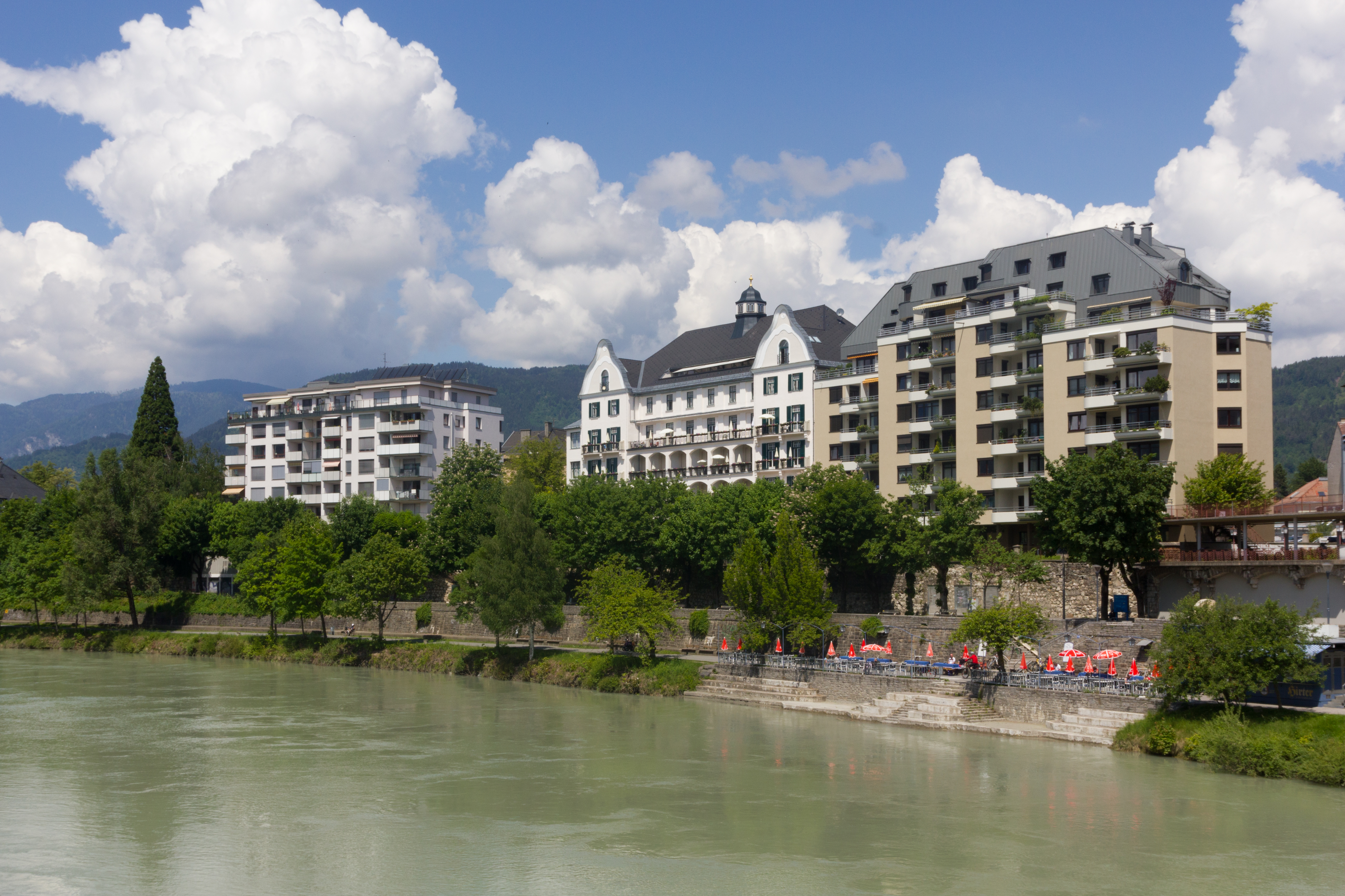 Buildings on Draupromenade in Villach